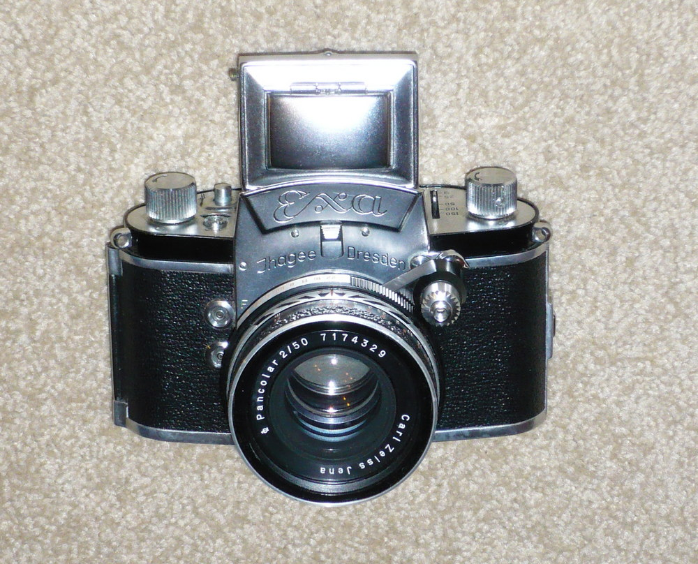 Ihagee Exakta Exa single lens reflex